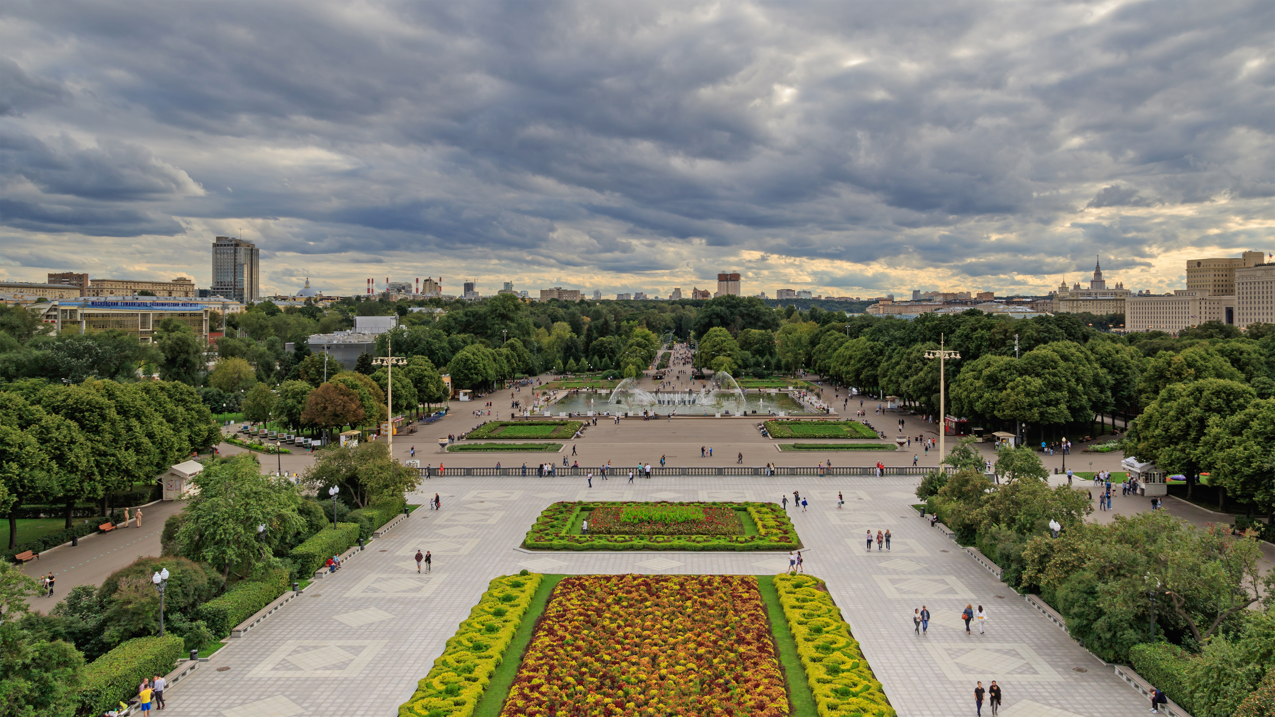 View from the roof of the main Gorky Park portal. Moscow, Russia.